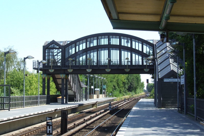 S-Bahn-Station Buckower Chaussee in Berlin-Marienfelde: The Portal of the Southern access Fotograf: Harald Rossa Date: June 2006 Version with higher resolution is available